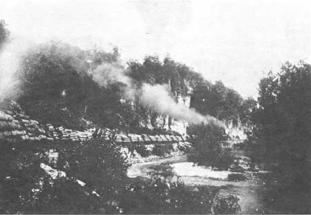 Log train of Misouri Mining and Lumber Co in Shannon County, Missouri circa 1910